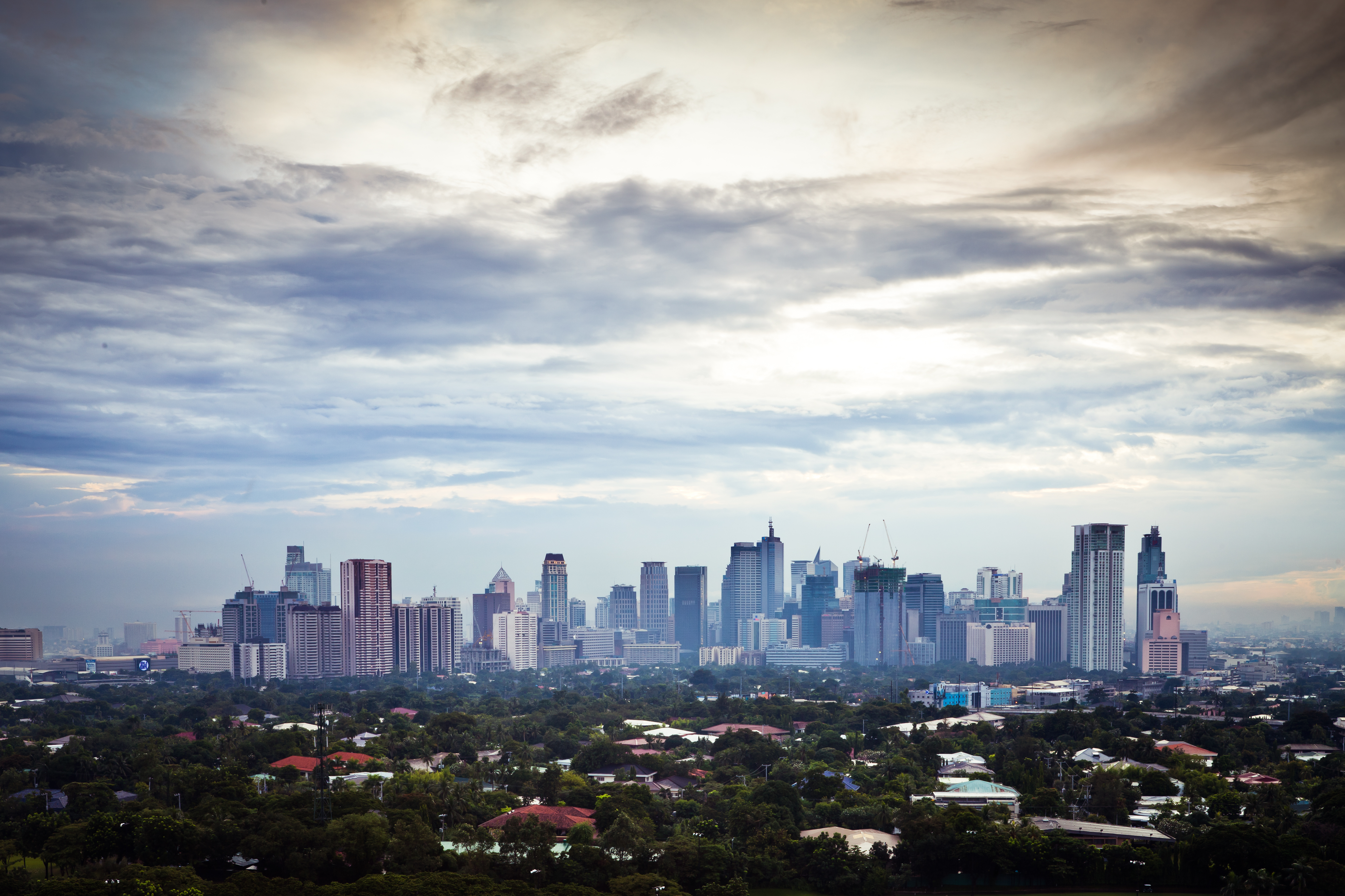 A view of Makati City's skyline from flickr.